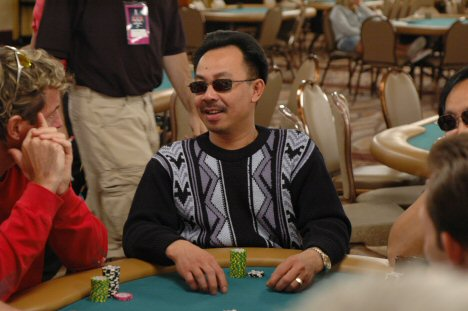 David Pham in 2005 World Series of Poker Rio Las Vegas